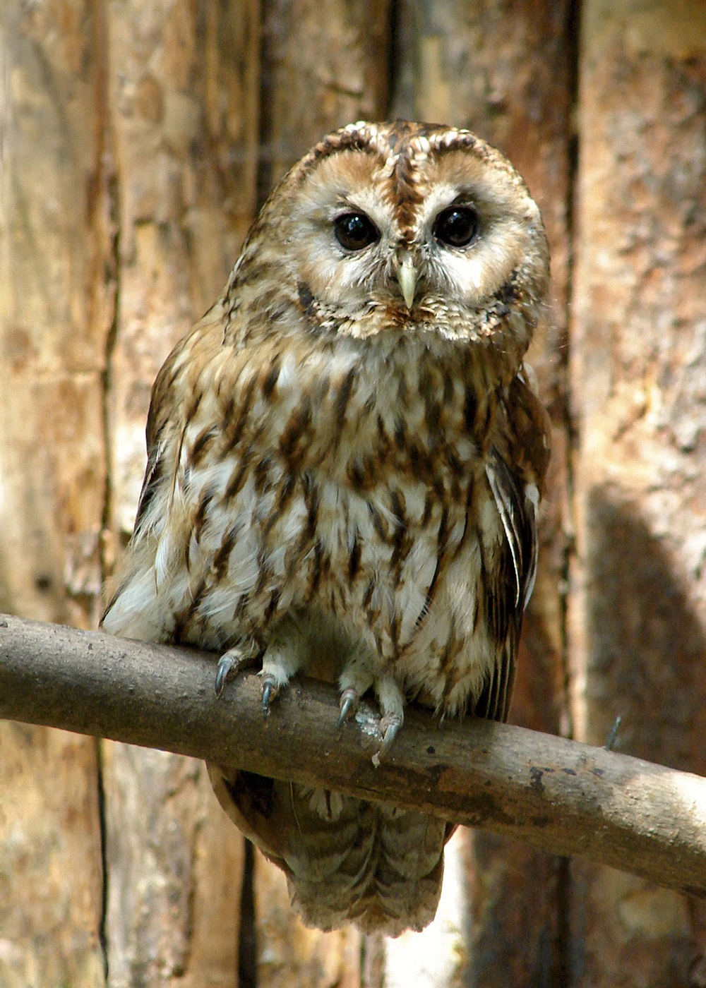 Tawny Owl